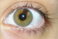 An eye exhibiting sectoral heterochromia. The iris in this instance is green with a dark brown stripe.